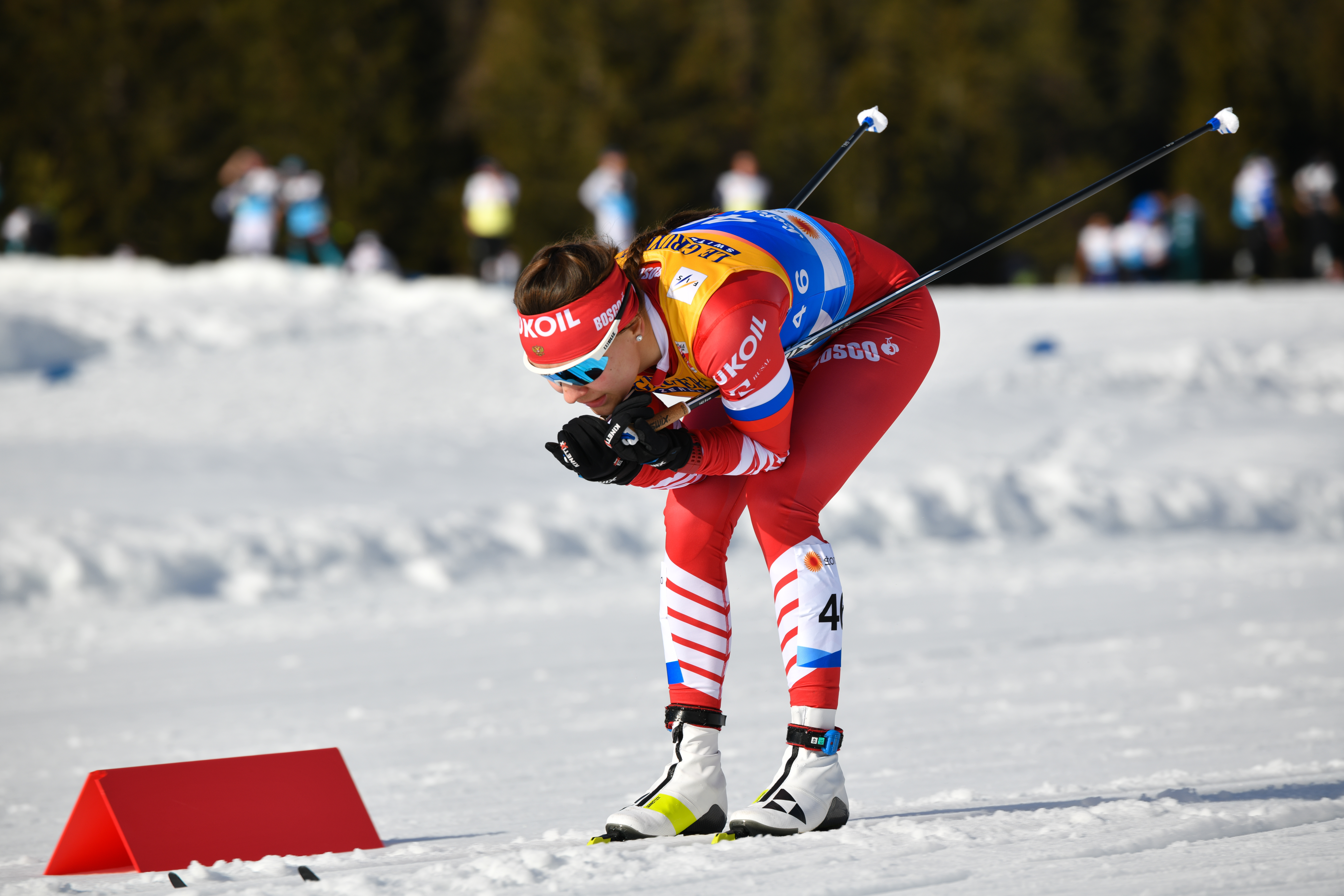 FIS Nordic World Ski Championships Seefeld 2019 - Ladies Cross Country 10km. Picture shows Anastasia Sedova (RUS).